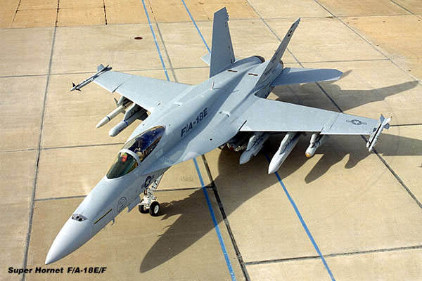 FA-18EF Super Hornet